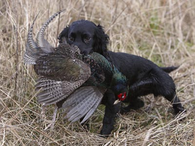 working cocker spaniel retrieveing a cock pheasant